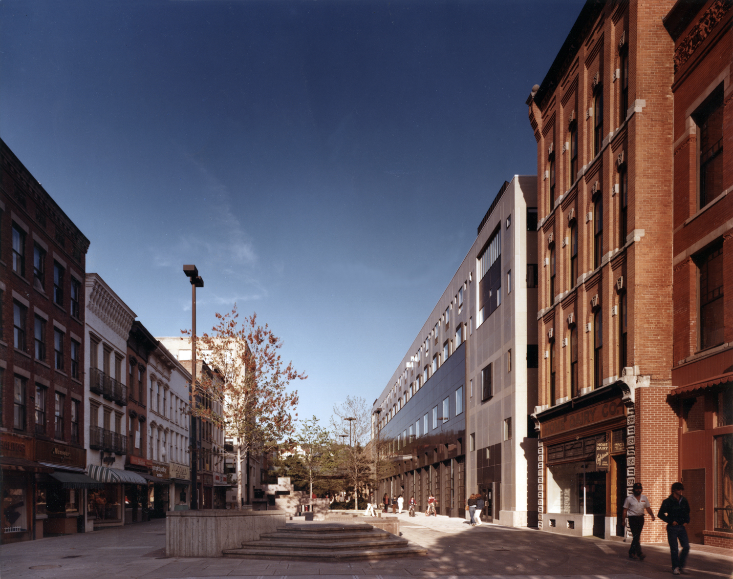 A large multiuse urban building facing the Ithaca Commons. The ground and lower floors are commercial retail space. The second floor is office space. The top two floors are residences. Joel Bostick was the major contributor to the project. The last built work of Seligmann.